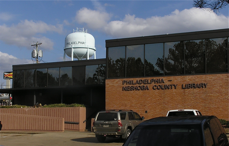 Philadelphia - Neshoba County Library; Philadelphia, Mississippi; December 2010.